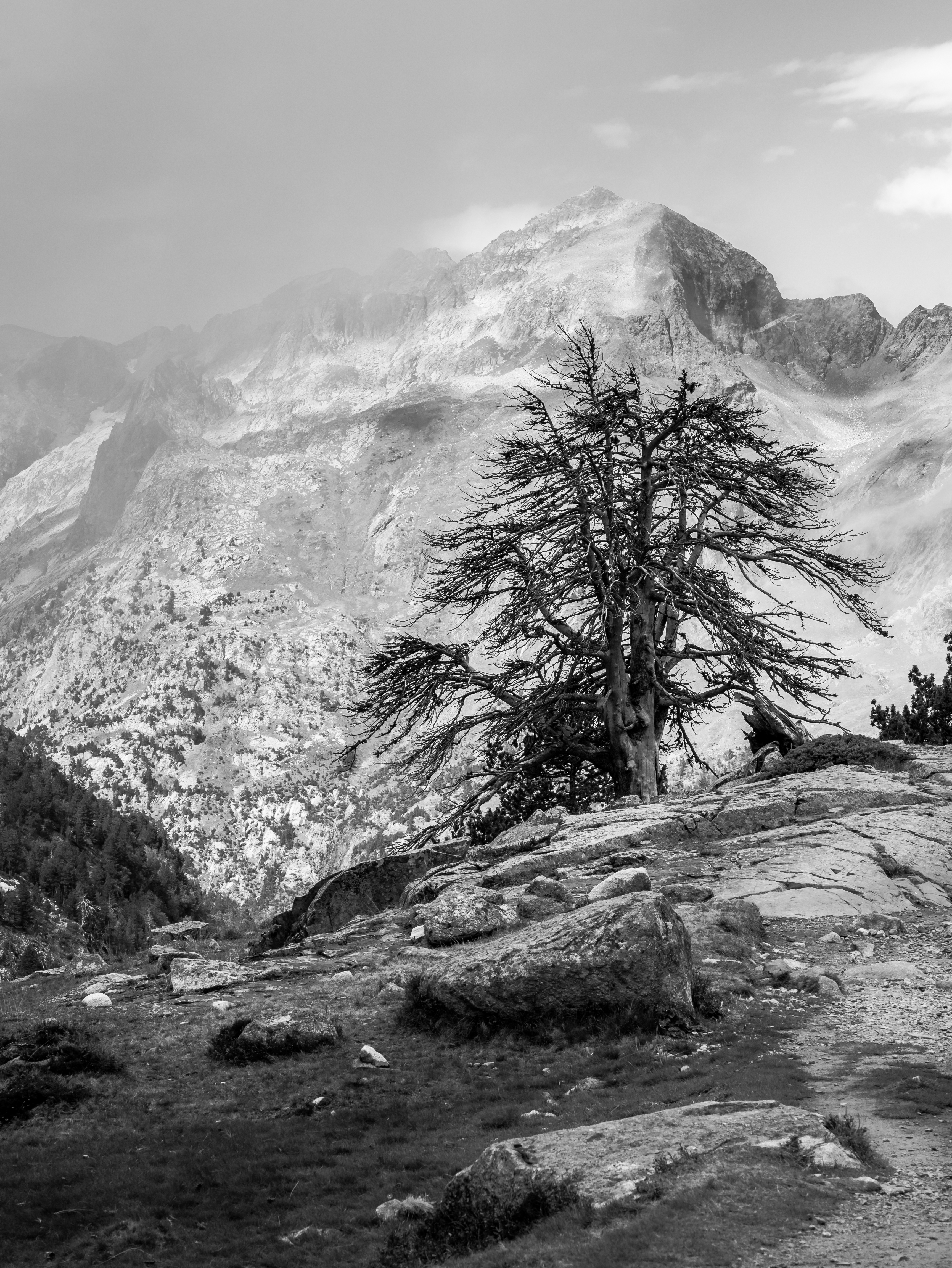 Dead tree on the trail to Forau de Aigualluts. Huesca, Aragon, Spain